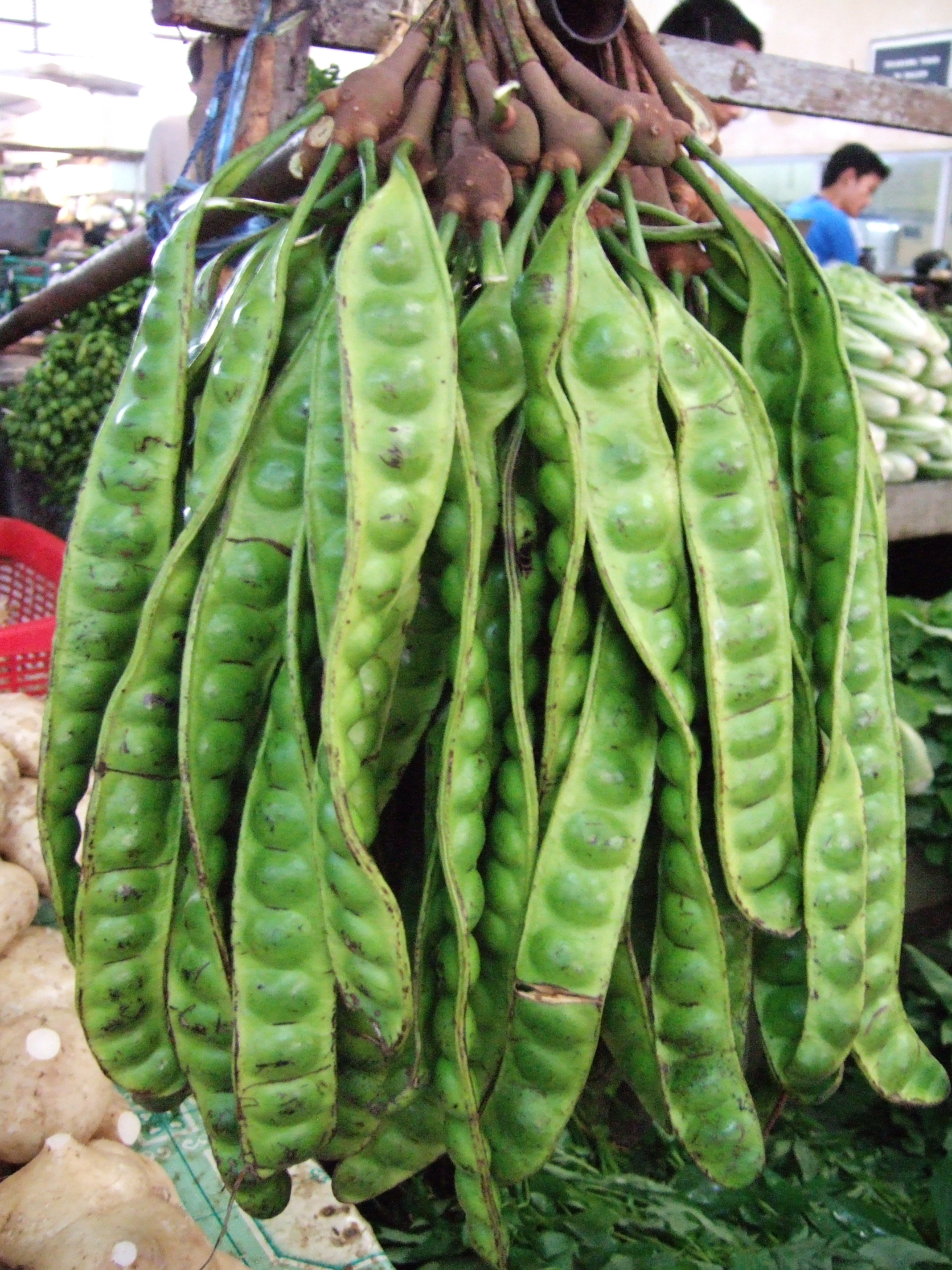 Parkia speciosa seeds